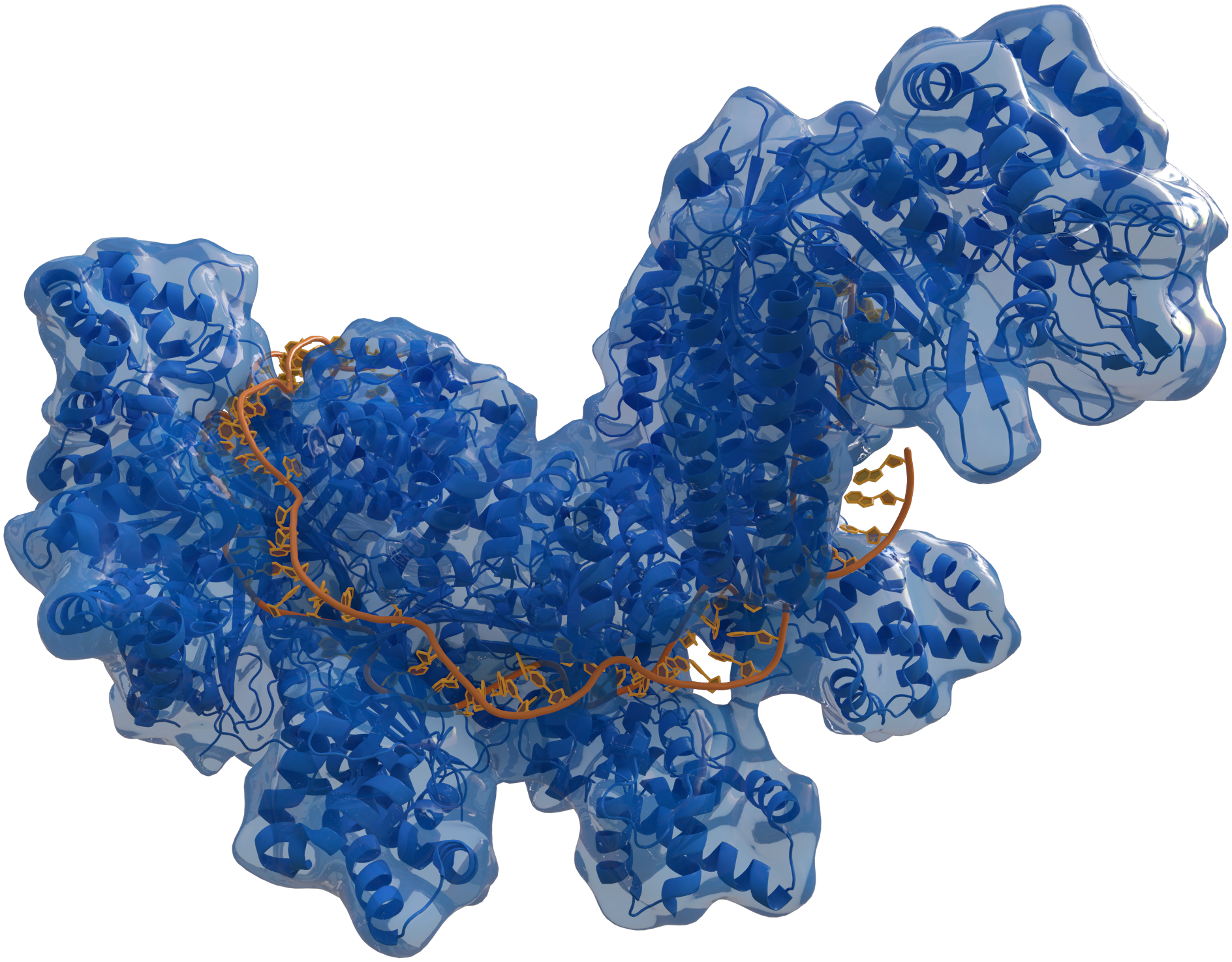 Type-I CRISPR RNA-guided surveillance complex (Cas, blue) bound to a ssDNA target (orange). The type I surveillance complex in Escherichia coli is known as Cascade (CRISPR-associated complex for antiviral defense), a 405-kDa complex consisting of eleven subunits of five Cas proteins (Cse1, Cse2, Cas7, Cas5, and Cas6e) and a 61-nucleotide crRNA (also orange). Based on PDB ID 4QYZ